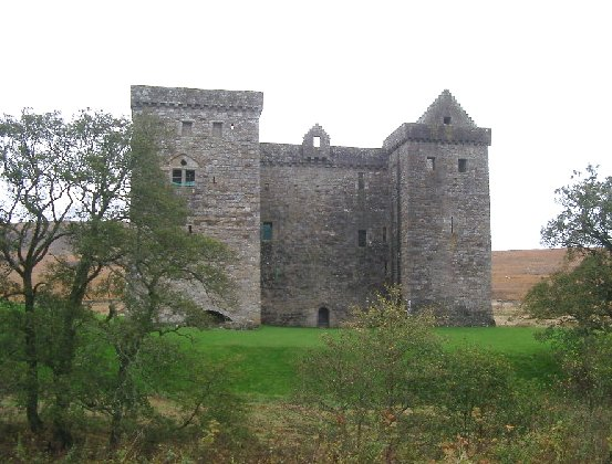 Hermitage Castle, sort-of near Hawick